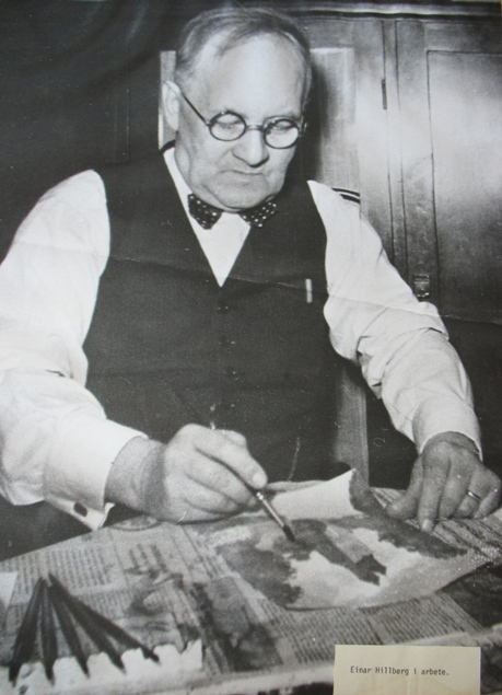 The painter Einar Hillberg